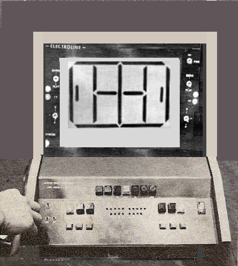 Photo of the instrument used at the Virginia Slims event described in the article